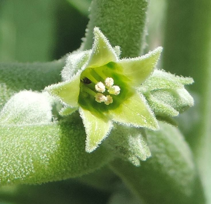 Withania somnifera, a well-known medicinal plant. Xai-Xai, Southern Mozambique.